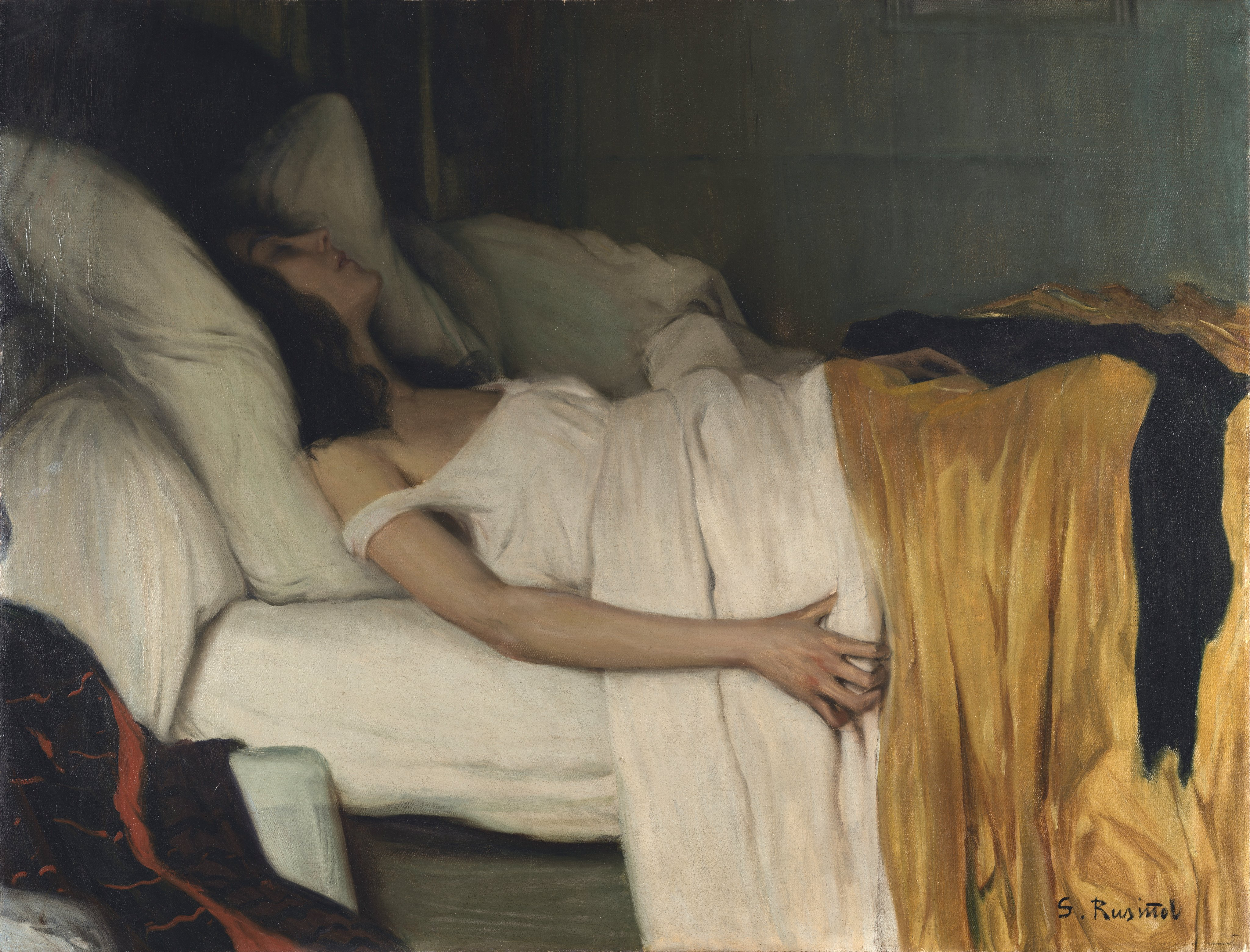 The morphinelabel QS:Len,"The morphine"label QS:Les,"La morfina"